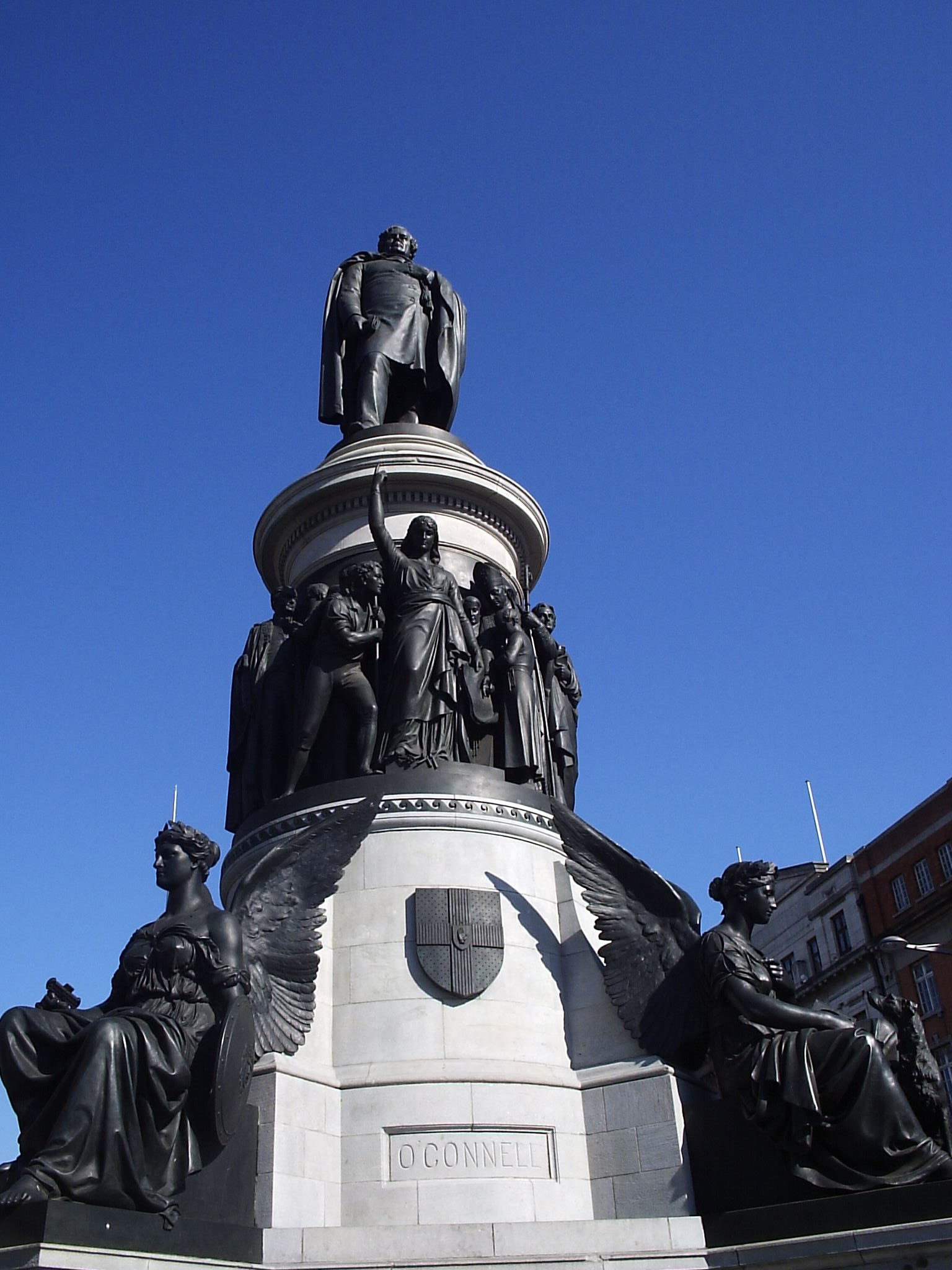 Description: O'Connell statue on O'Connell Street in Dublin Date:09/2006